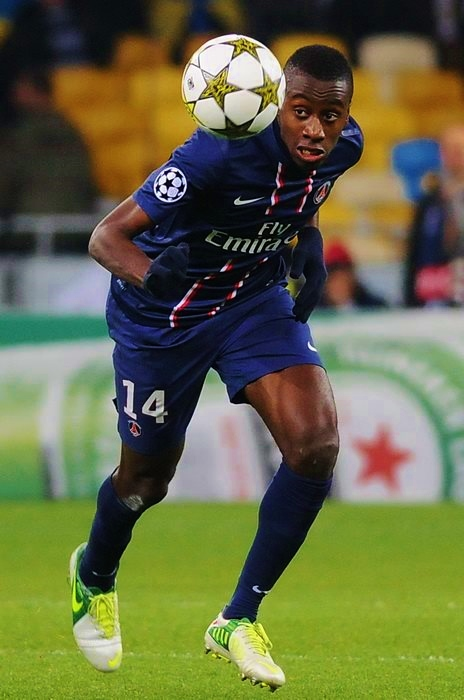 Blaise Matuidi